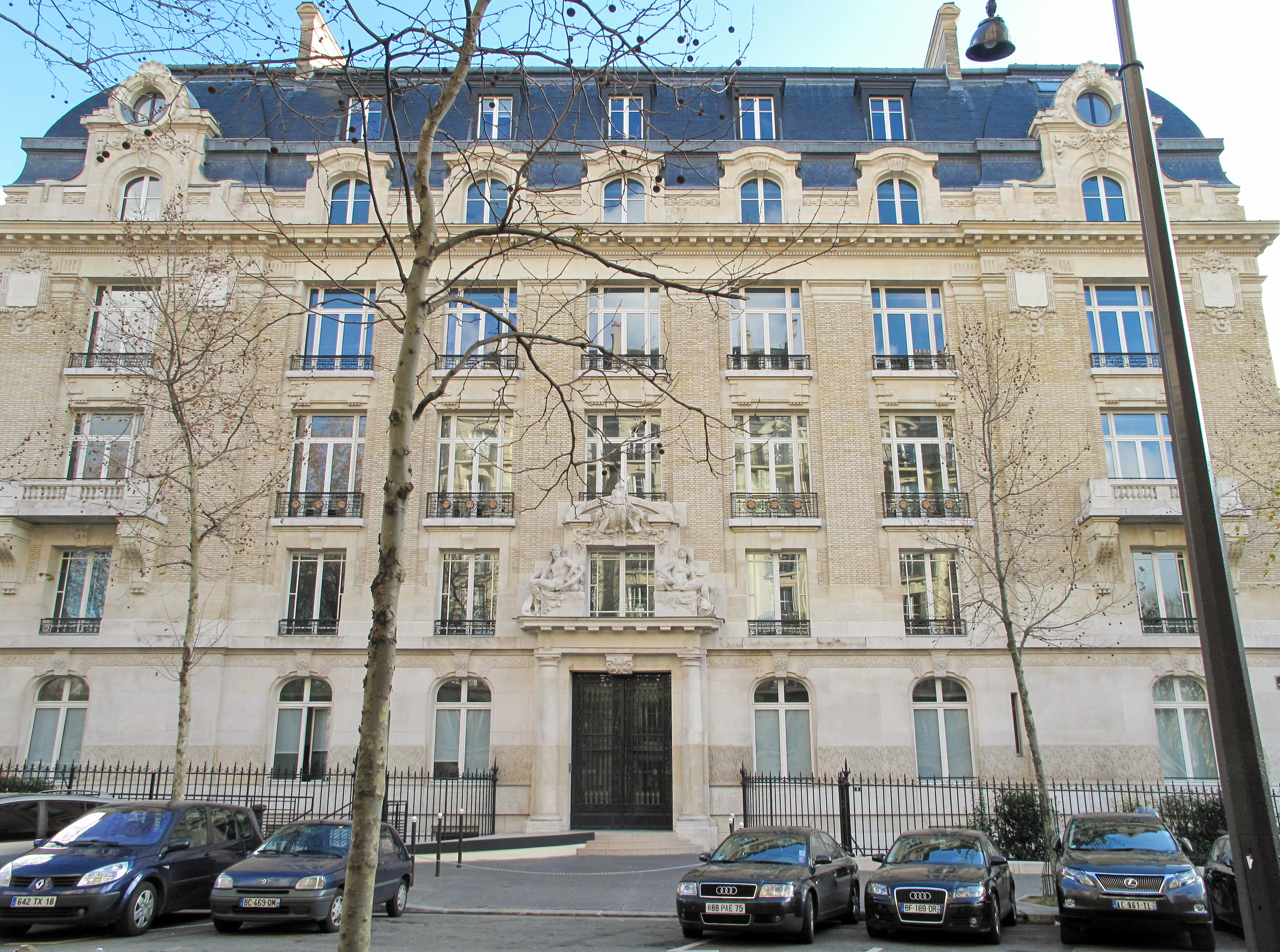 Building of 3 avenue Octave Gréard, Paris 15th arrond. It houses the head office of Salesforce.